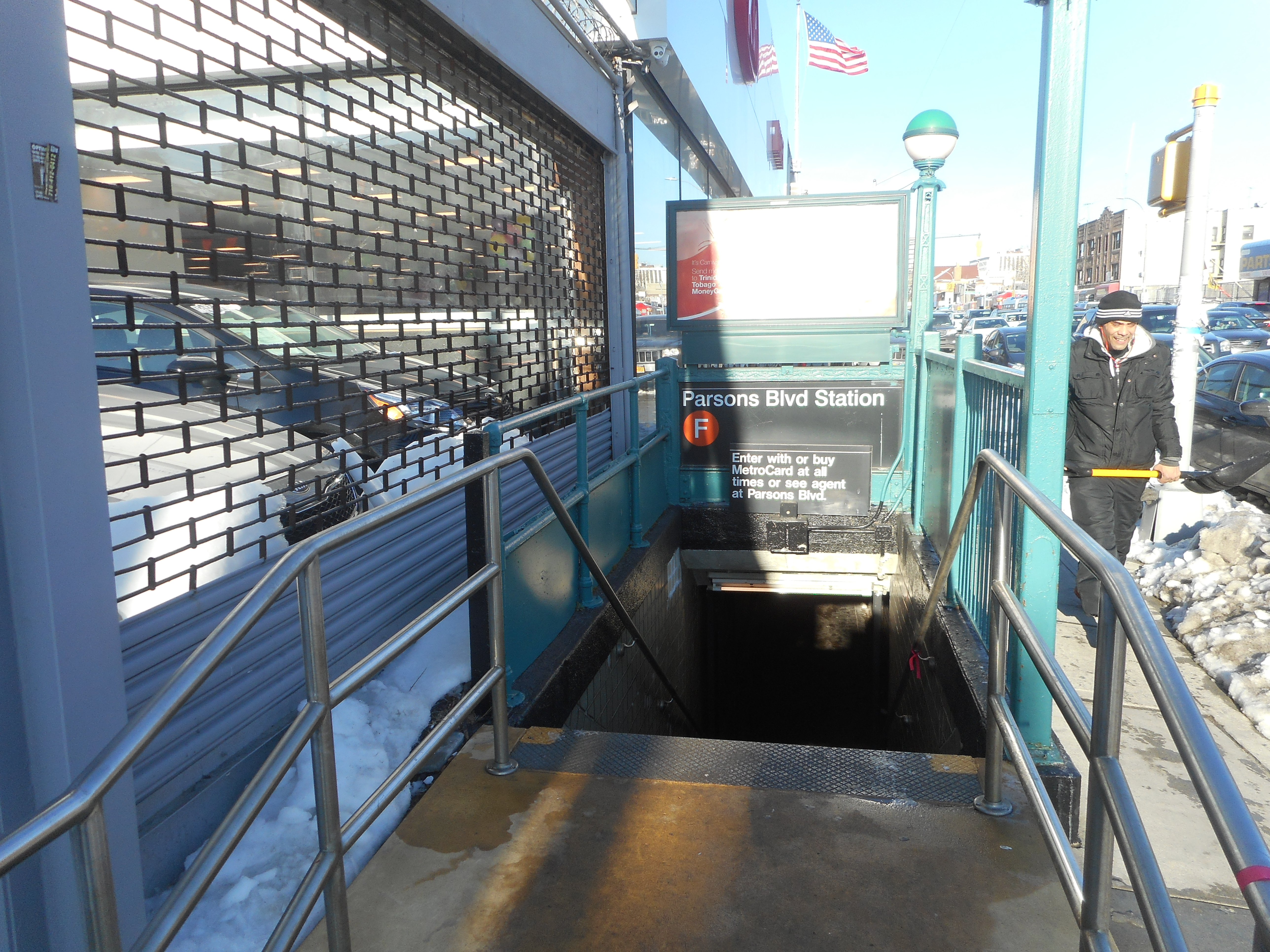 The north entrance to the Parsons Boulevard Subway Station on the IND Queens Boulevard Line in the Jamaica section of Queens, New York City. This is on the northeast corner of 153rd Street and Hillside Avenue (NY 25), hence the name. No entrance can be found on the northwest corner.